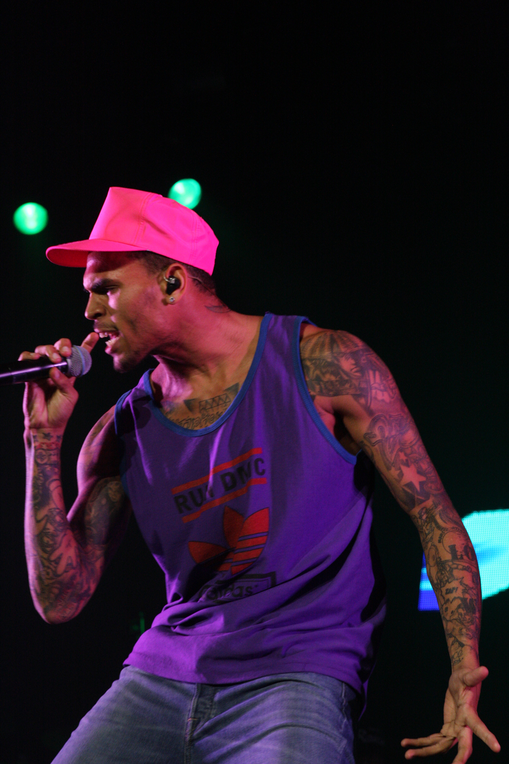 Supafest 2012, Sydney, Australia; Chris Brown, Kelly Rowland, Lupe Fiasco, Naughty By Nature and more